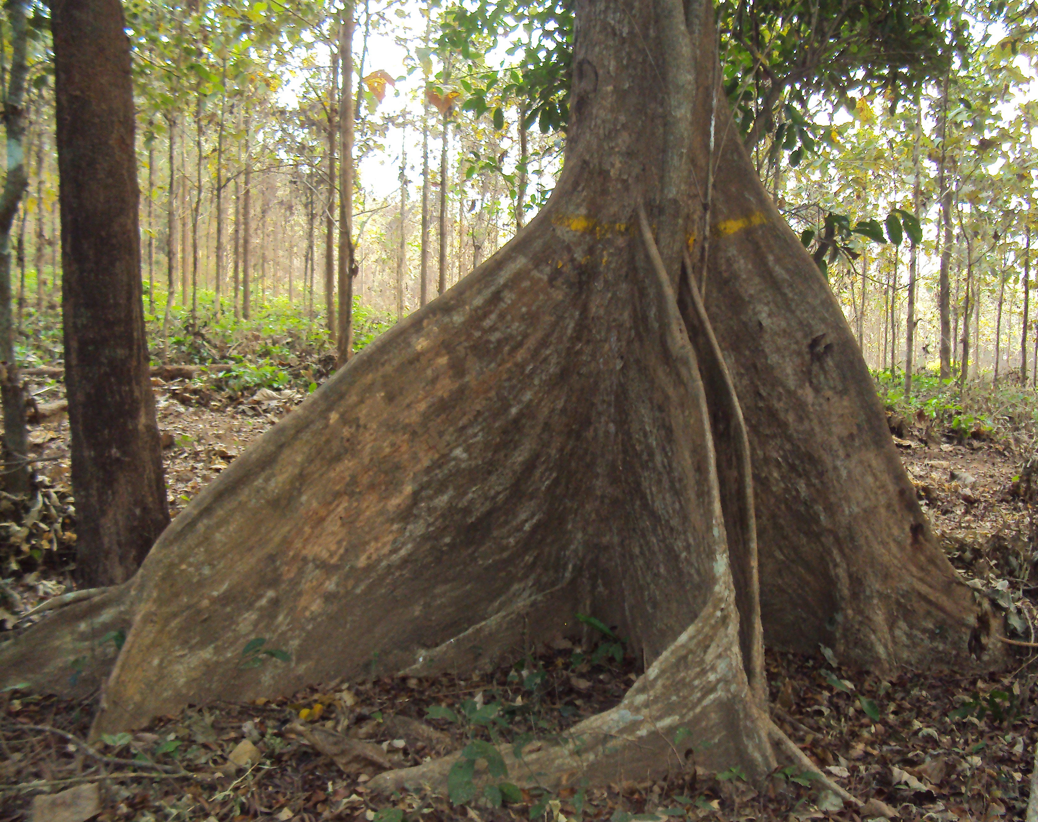 Andaman padauk